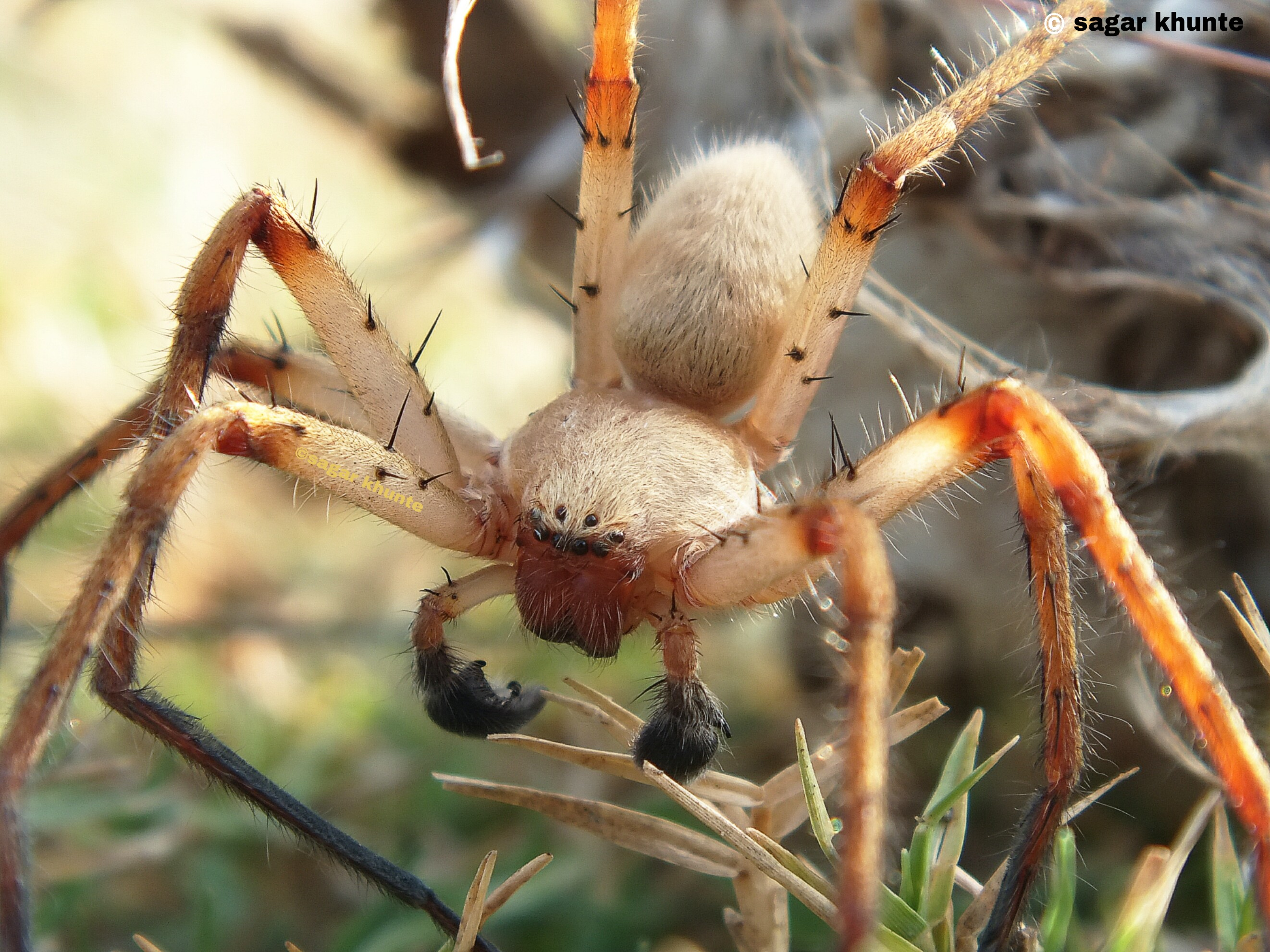 Olios lamarcki is species of spider